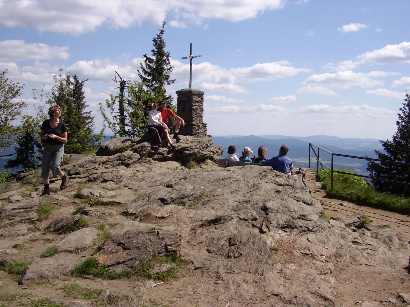 The summit of Grosser Falkenstein (1315m) in the Bavarian Forest